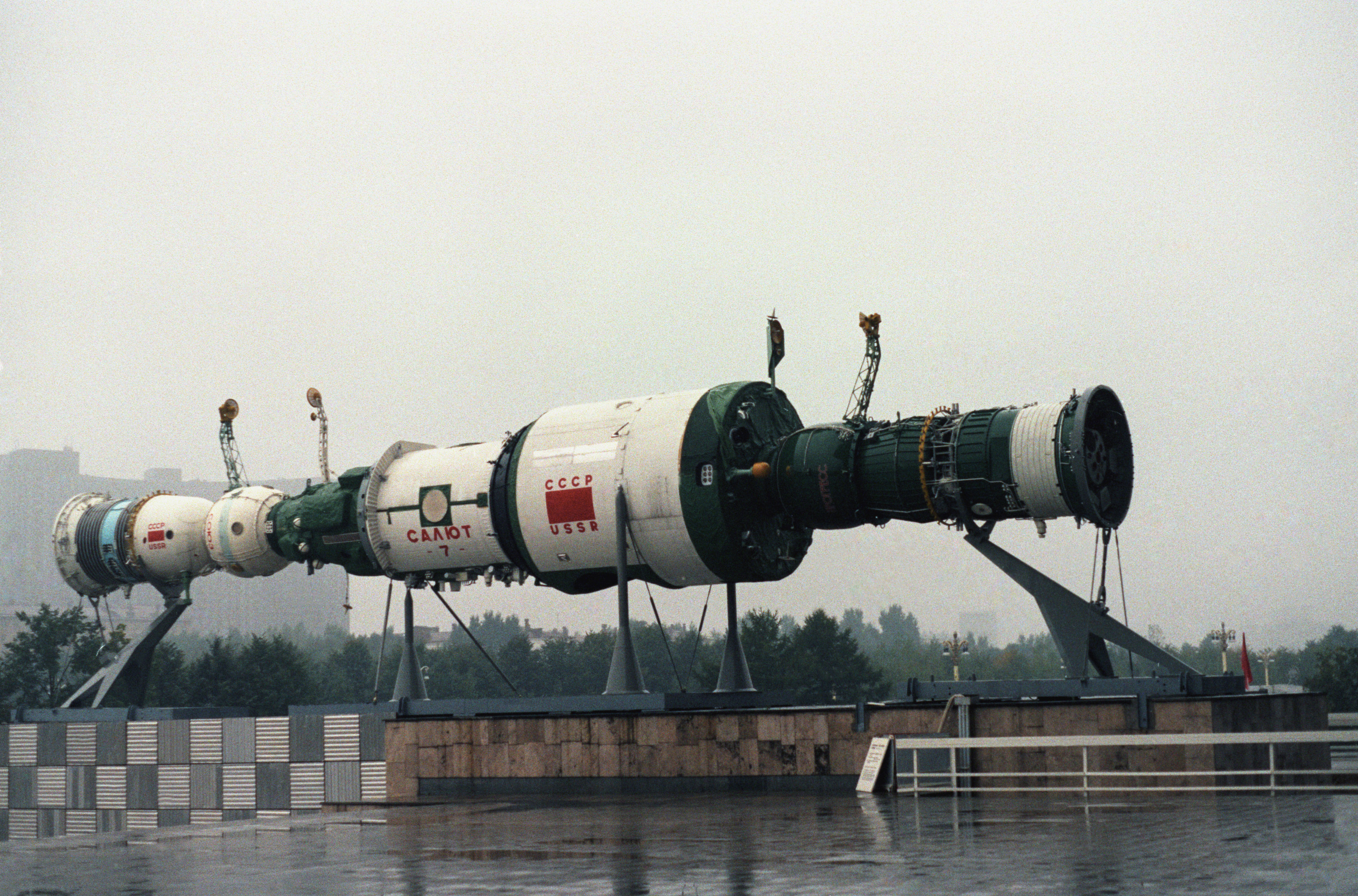 A model of the Salyut 7 space station, with a Soyuz spacecraft docked at the front port and a Progress spacecraft at the rear port. The display is in front of one of the pavilions of the Exhibition of Soviet National Economic Achievement located across from the Kosmos Hotel on the north side of Moscow. (Image ID: DNSC8601101)